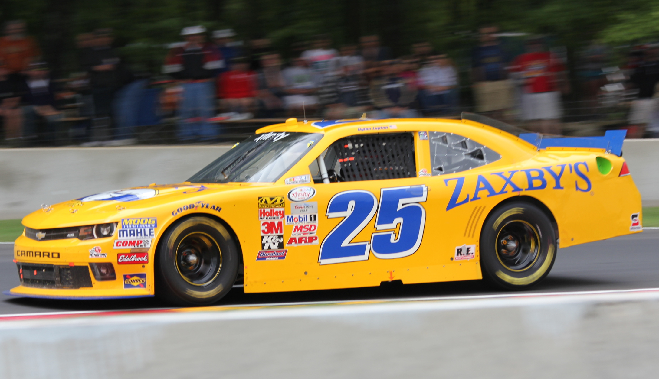 The NASCAR Xfinity Series car of Dylan Lupton turning left in Turn 6 at Road America.